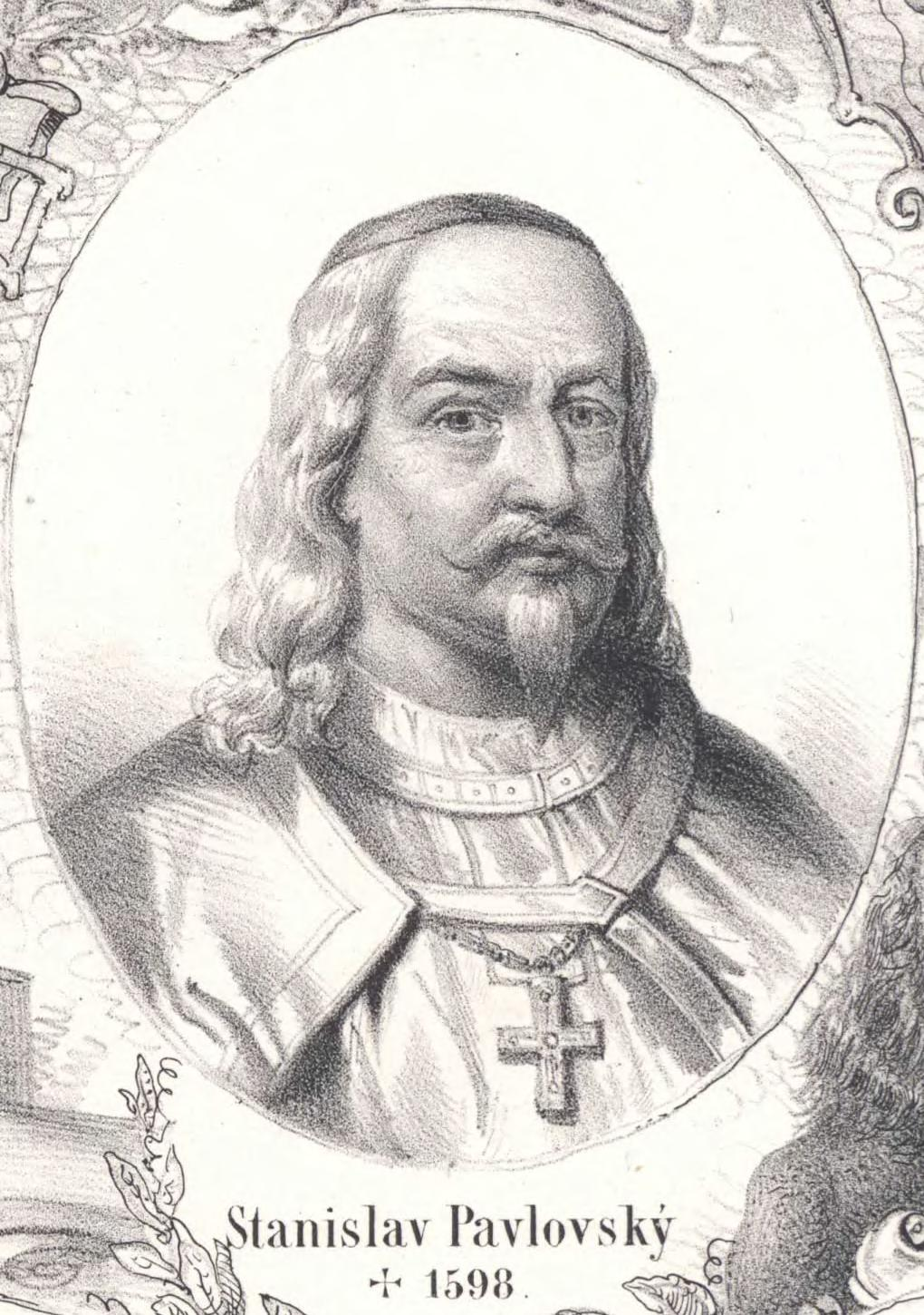 Portrait of Stanislav II. Pavlovský, in German known as Stanislaus Pavlovský von Pavlovitz (died 1598), Bishop of Olomouc.